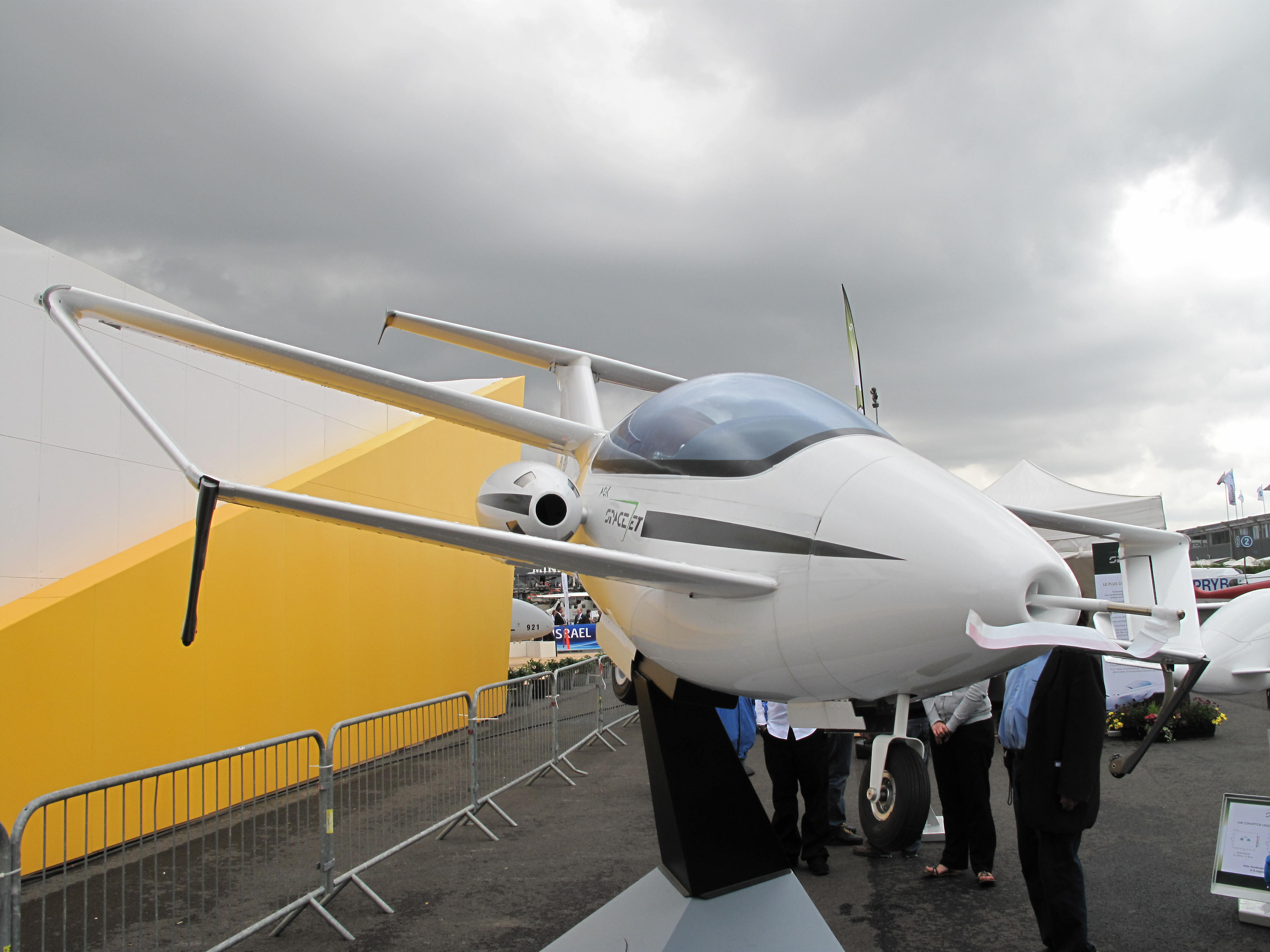 Individual civil French jet AOK Spacejet at the Paris Air Show 2013